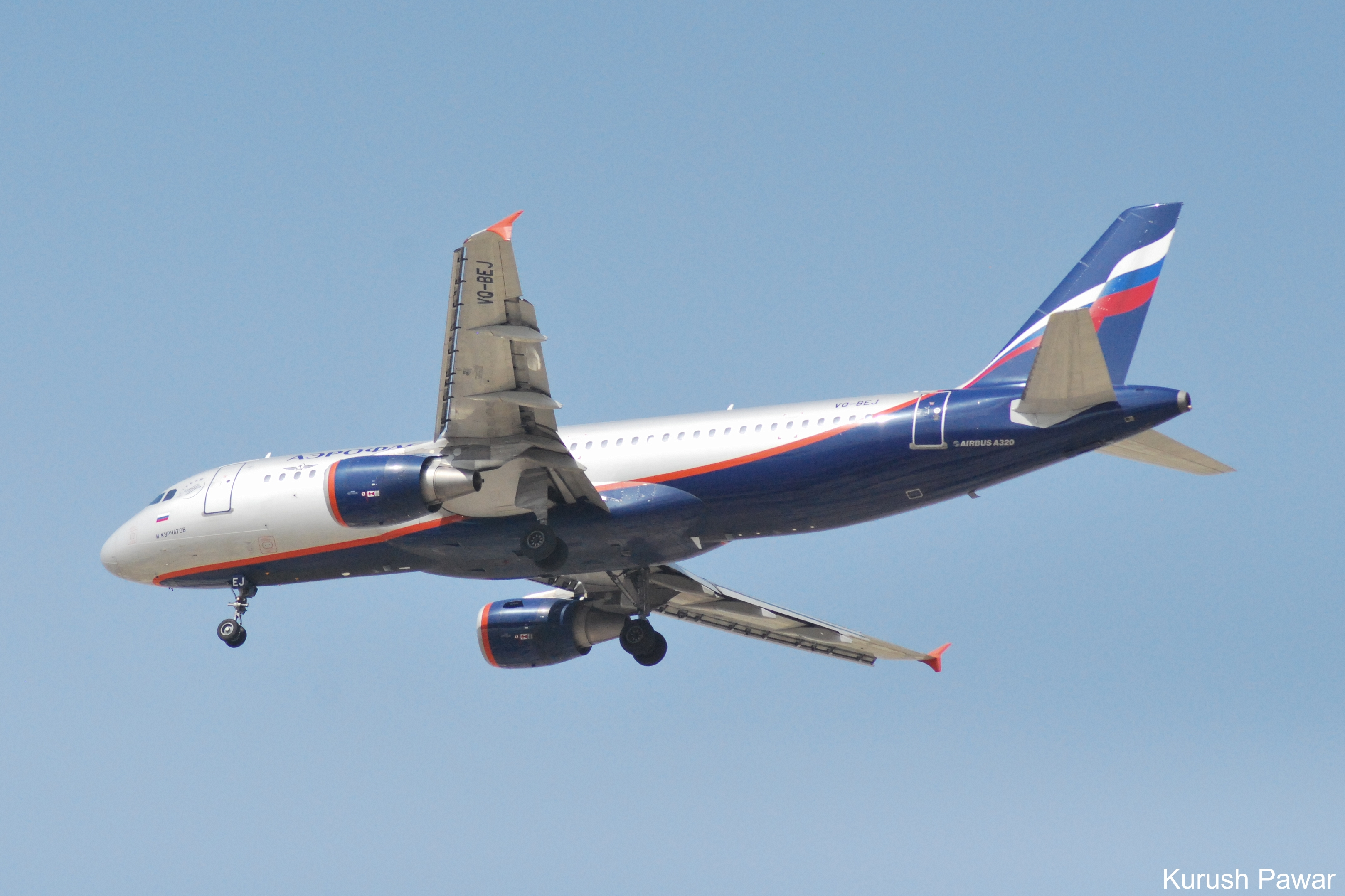 Registration: VQ-BEJ Airline: Aeroflot - Russian Airlines Aircraft: Airbus A320-214 Construction Number (MSN): 4160 Delivery: 20-01-2010 Flight Details: SU 520 / Sheremetyevo (SVO) - Dubai International Airport (DXB) Like my Facebook fan page